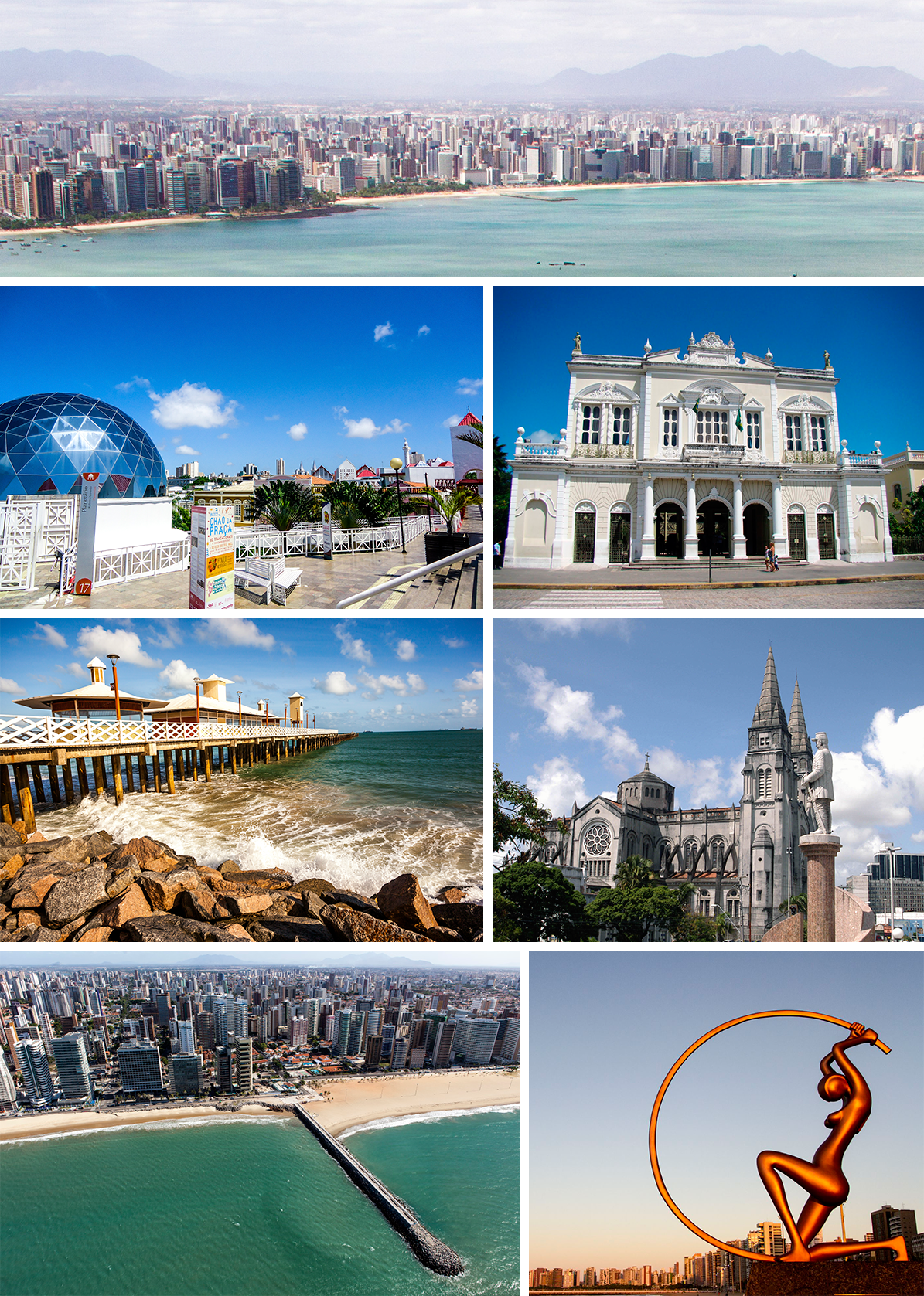 Montage of Fortaleza, Brazil. All of the pictures on this montage are from Wikipedia Commons.